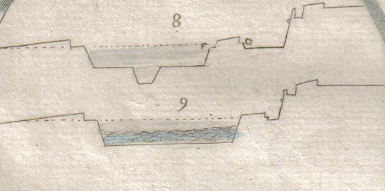 Detail of the engraving owned by me and filed as